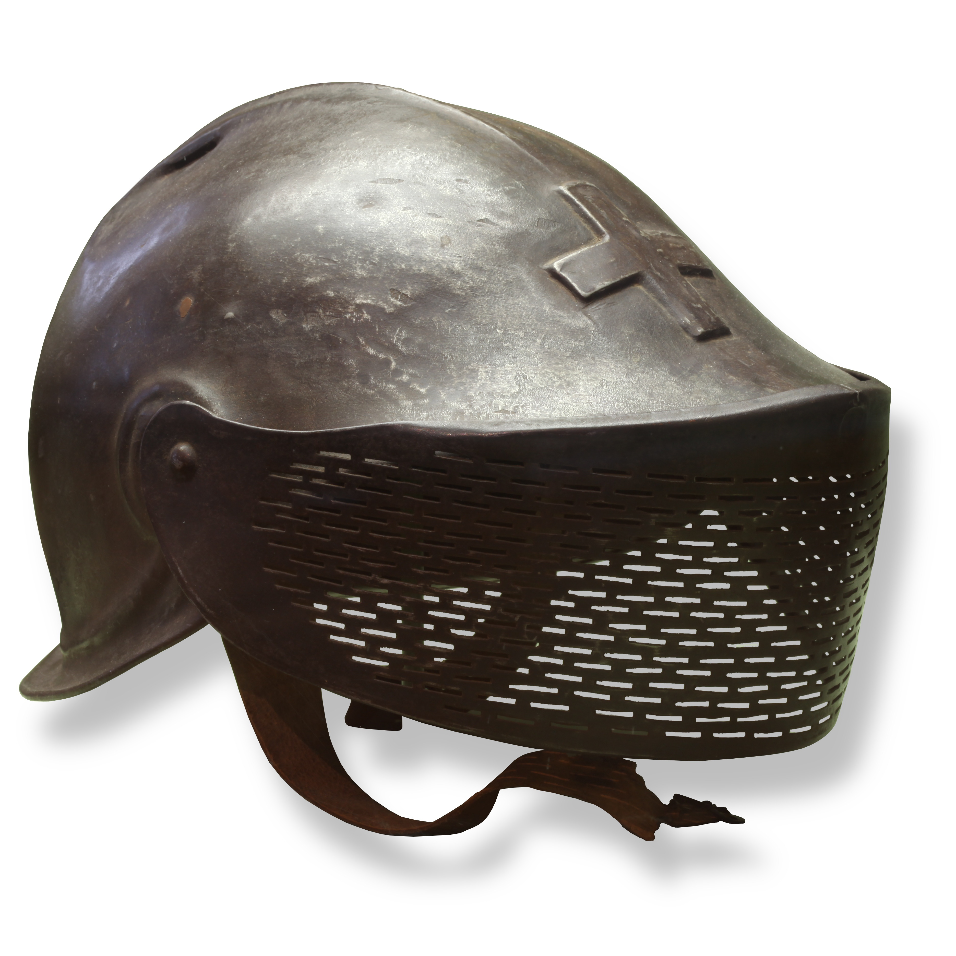 L'Eplattenier helmet, prototype military helmet for the Swiss Army, circa 1916-1918. Designed by Charles L'Eplattenier (1874-1946). On display at Morges military museum, accession number MMV 1003725.